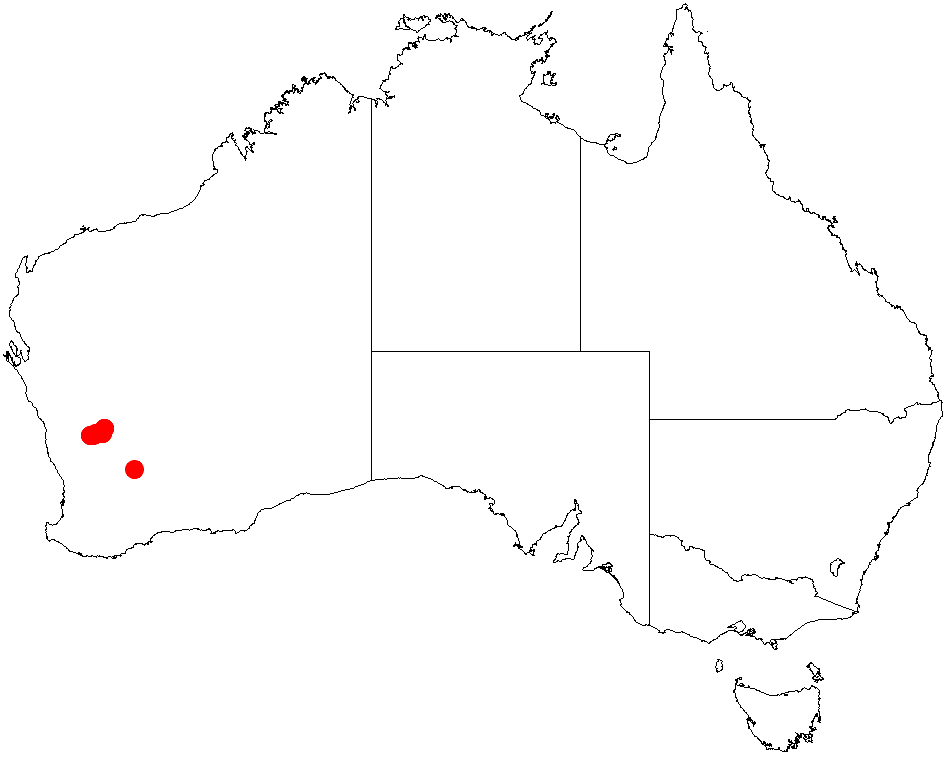 Acacia cerastes occurrence data from Australasian Virtual Herbarium downloaded from on December 8 2018